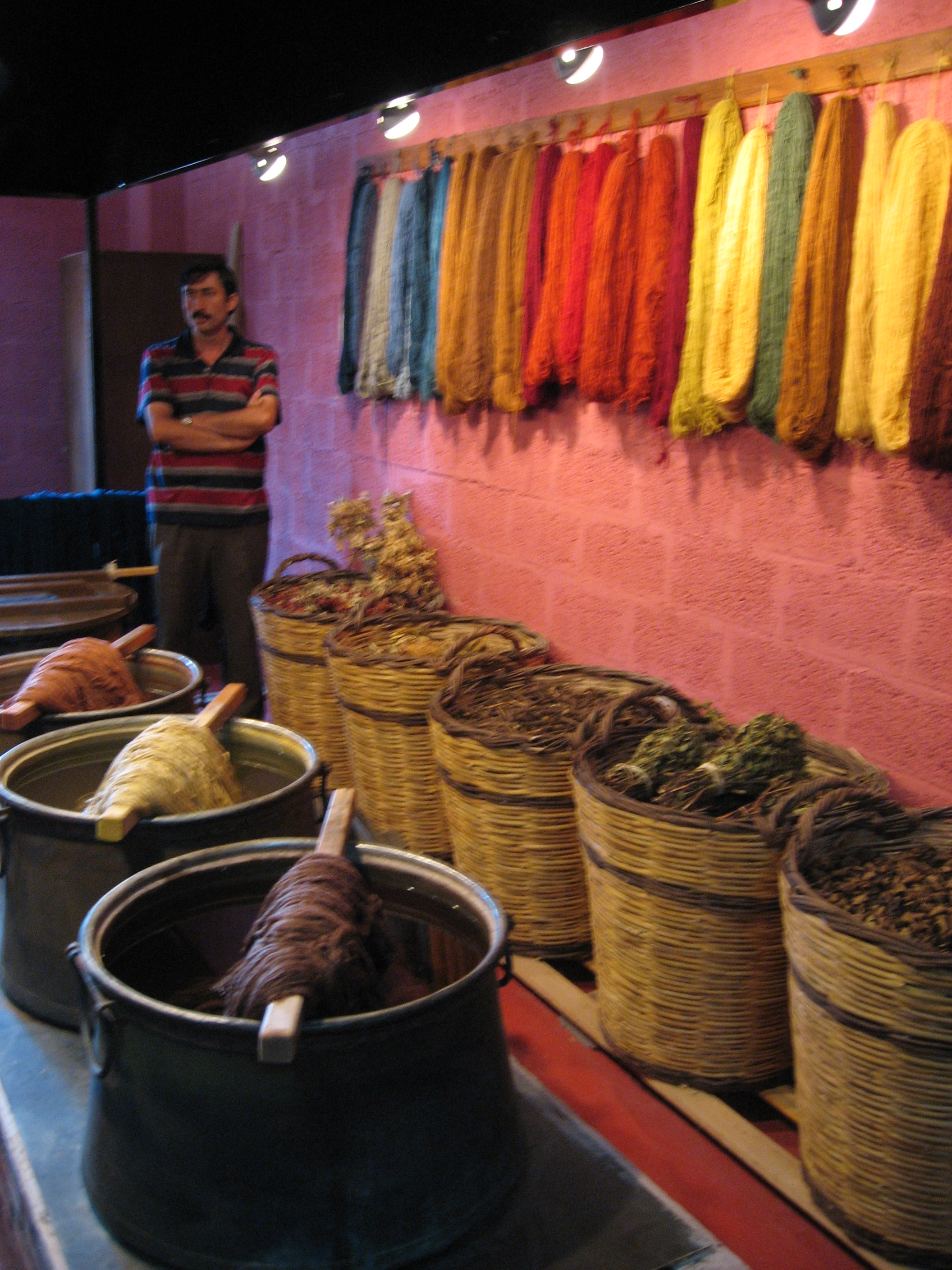 Carpet factory in Turkey